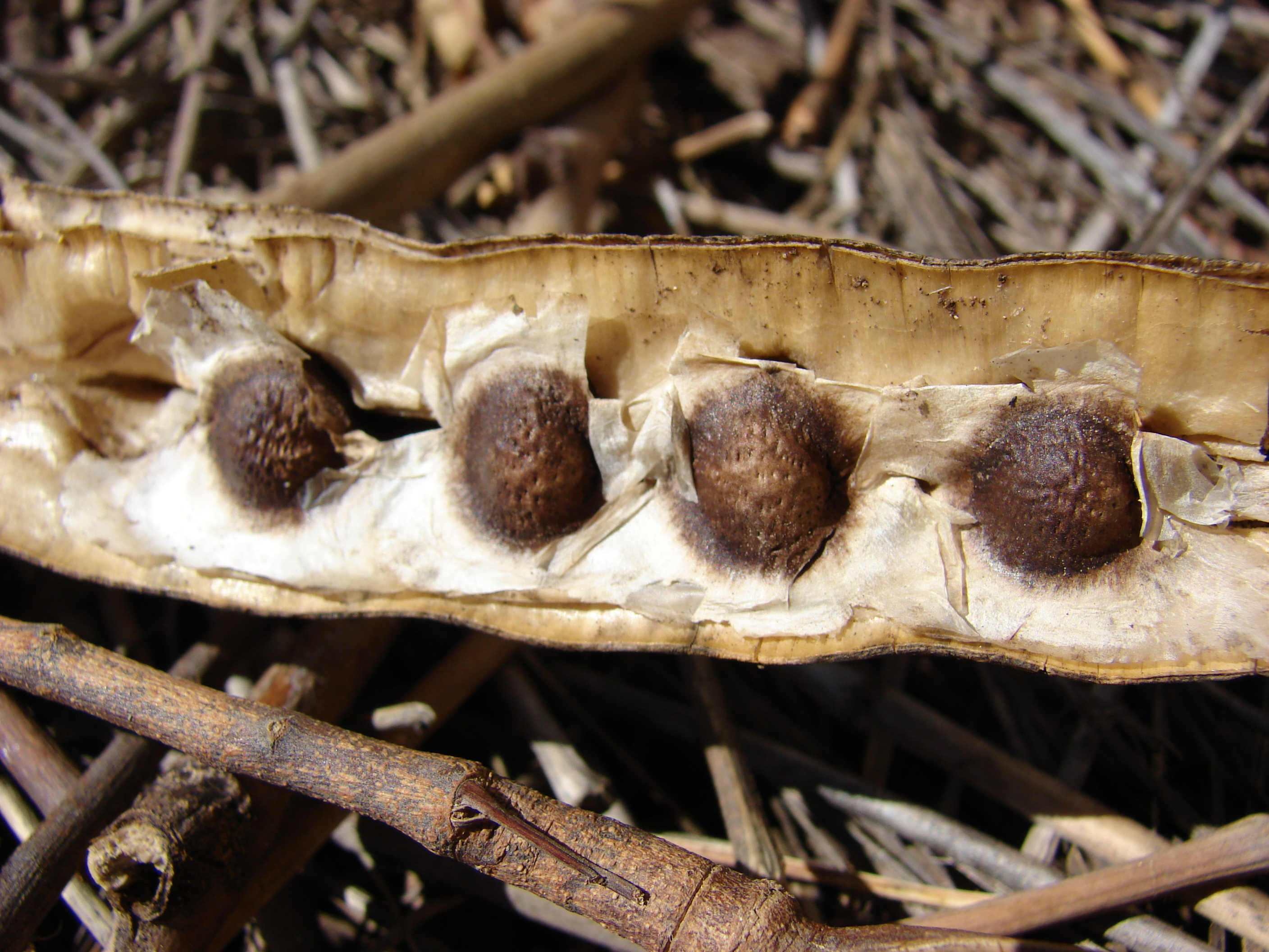 Moringa oleifera (pods and seeds on ground). Location: Maui, Dairy Rd Kahului